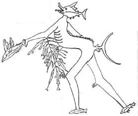 Anonymous. Neolithic drawing. c 1919 (redrawing). From Theo van Doesburg. Drie voordrachten over de nieuwe beeldende kunst. Amsterdam: Maatschappij voor goede en goedkoope lectuur, 1919: p. 66.